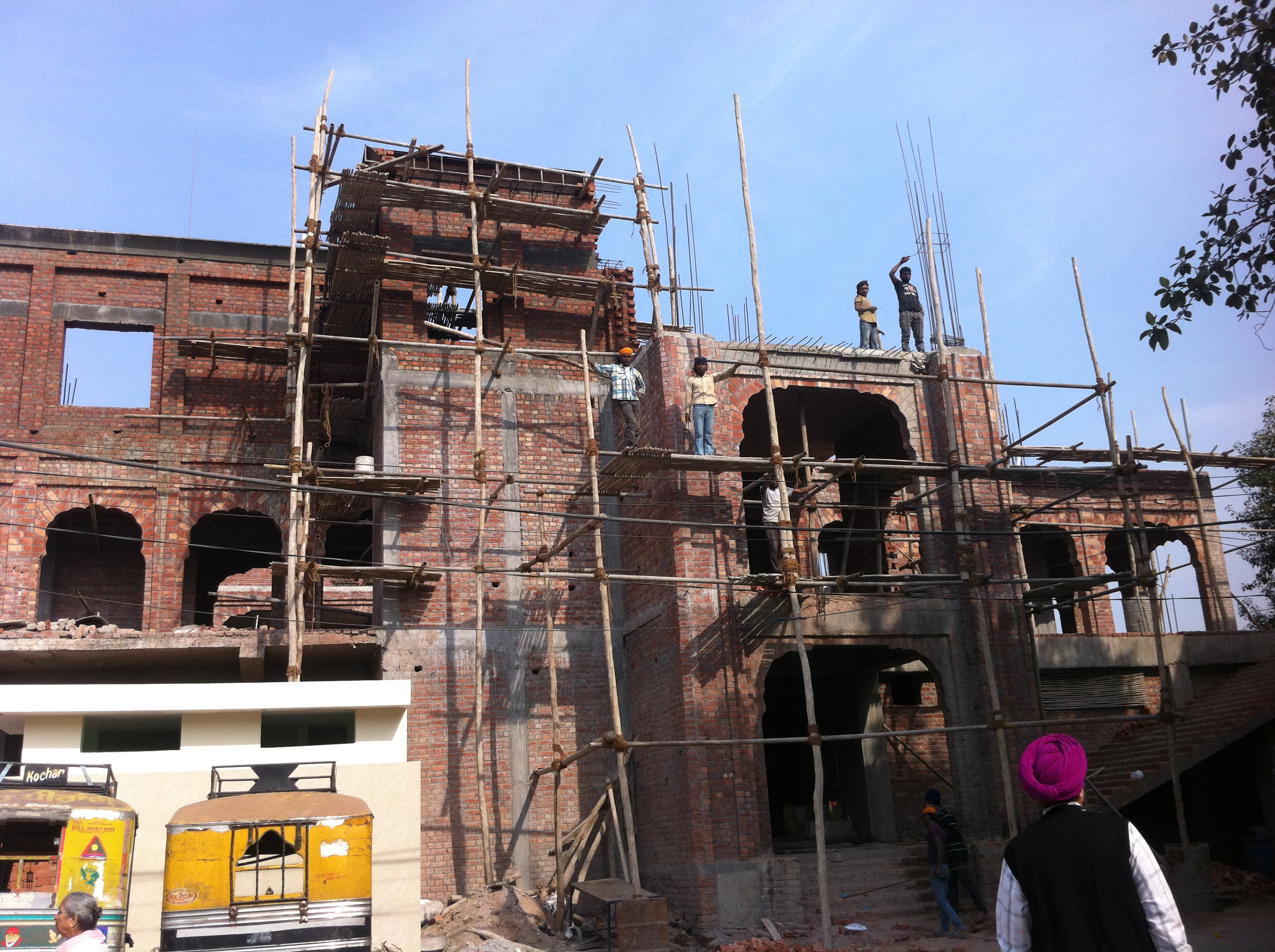 Construction going on at the time of picture